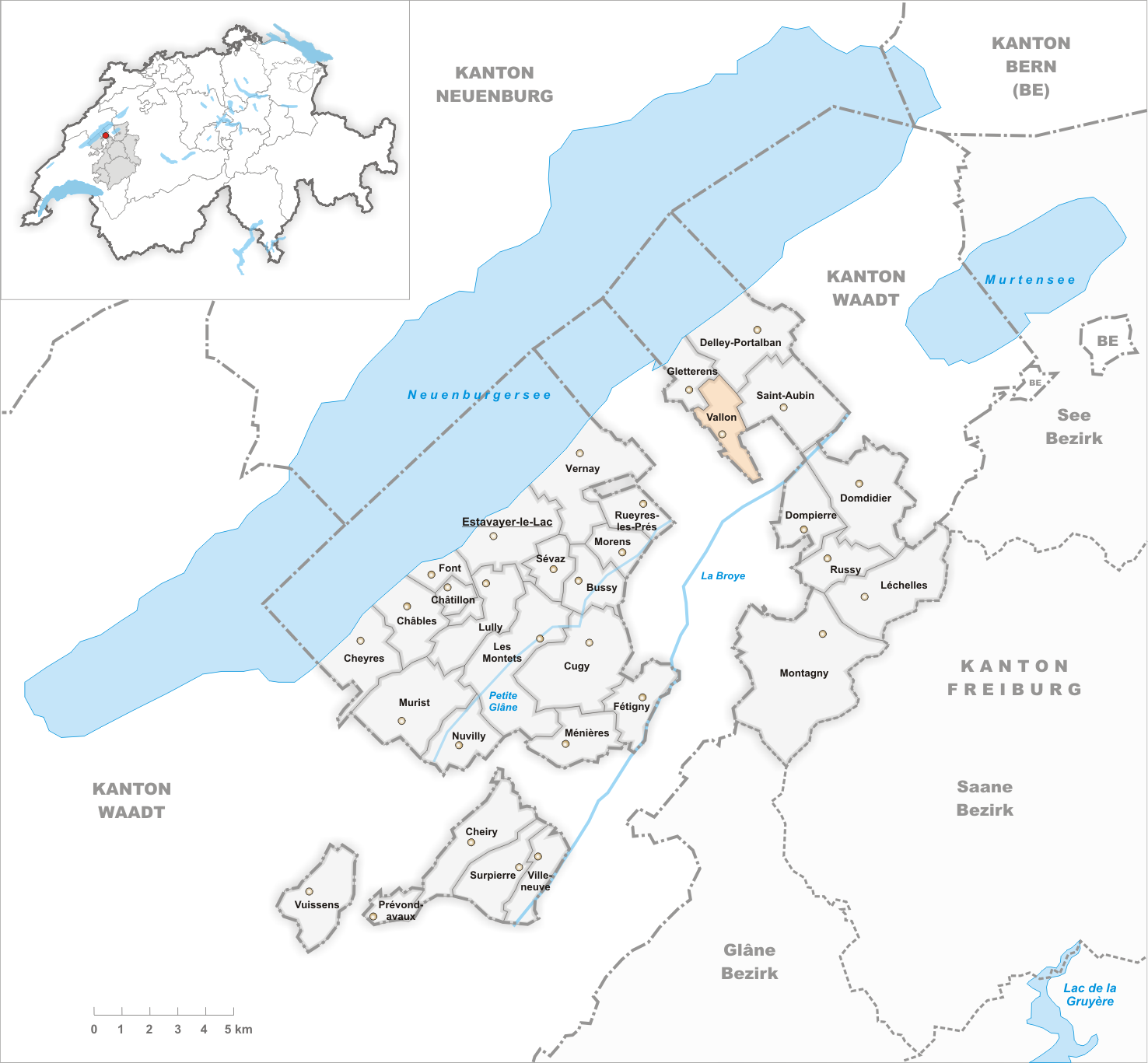 Municipality Vallon